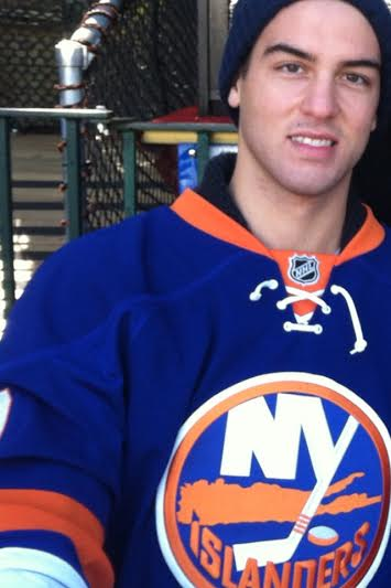 Kevin Poulin in October 2013